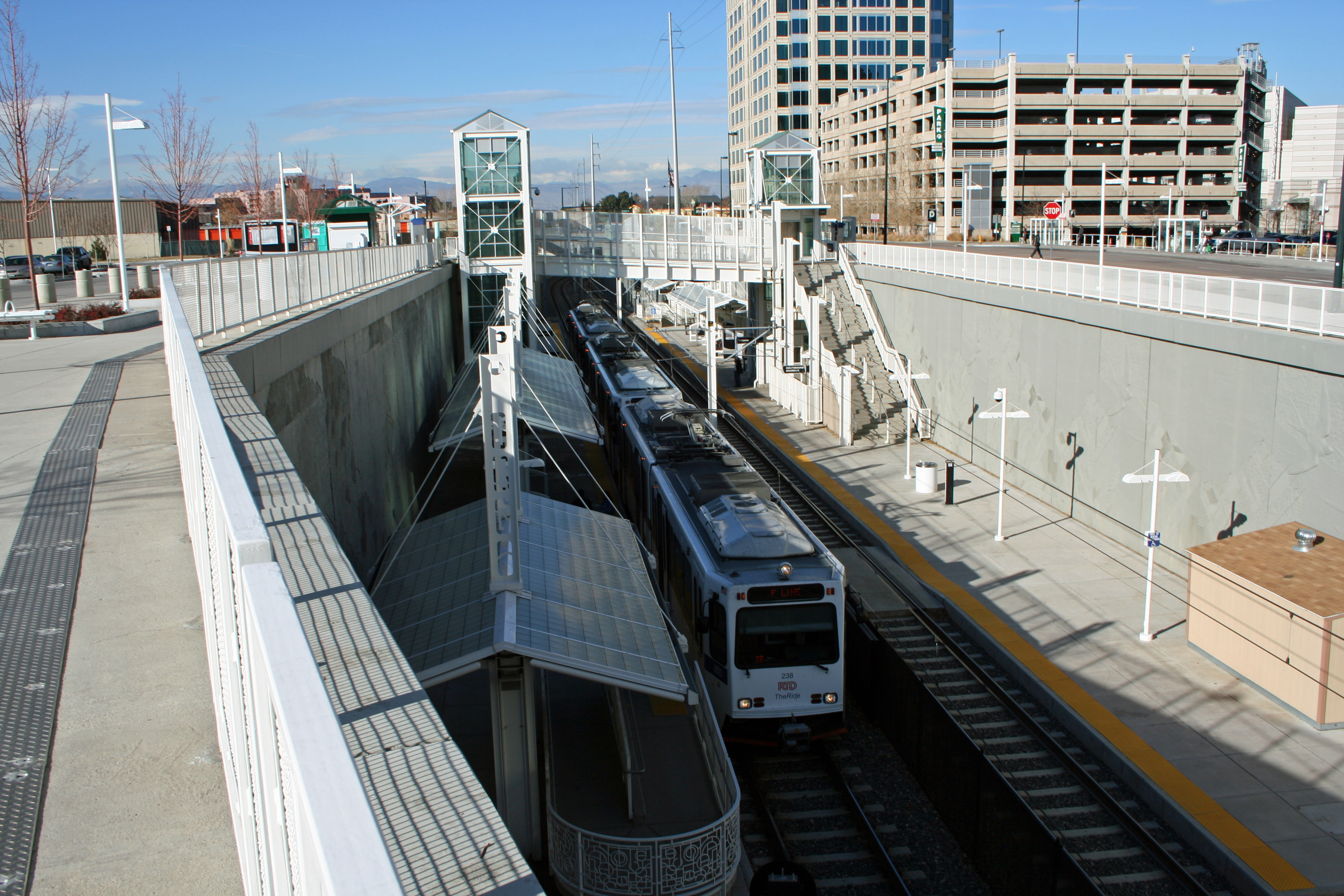 The Colorado (Boulevard) RTD station in Denver, Colorado.